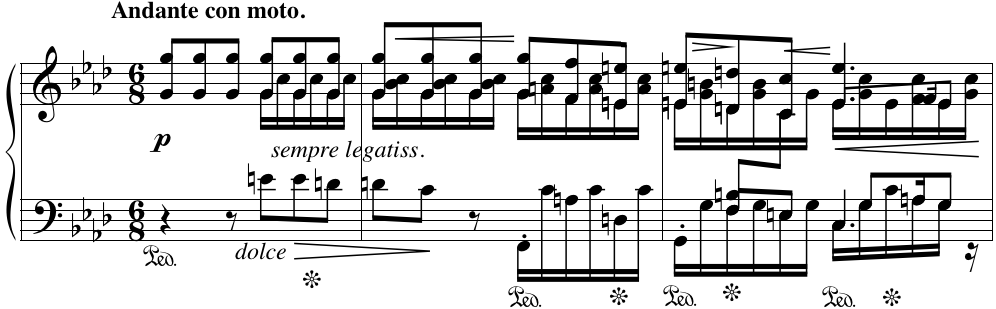 Excerpt from Chopin's Ballade No. 4, in F minor, Opus 52